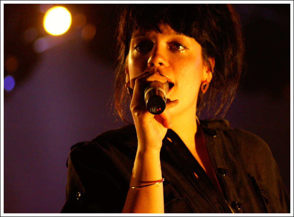 Lily Allen appearing at the Solidays festival in Paris, France